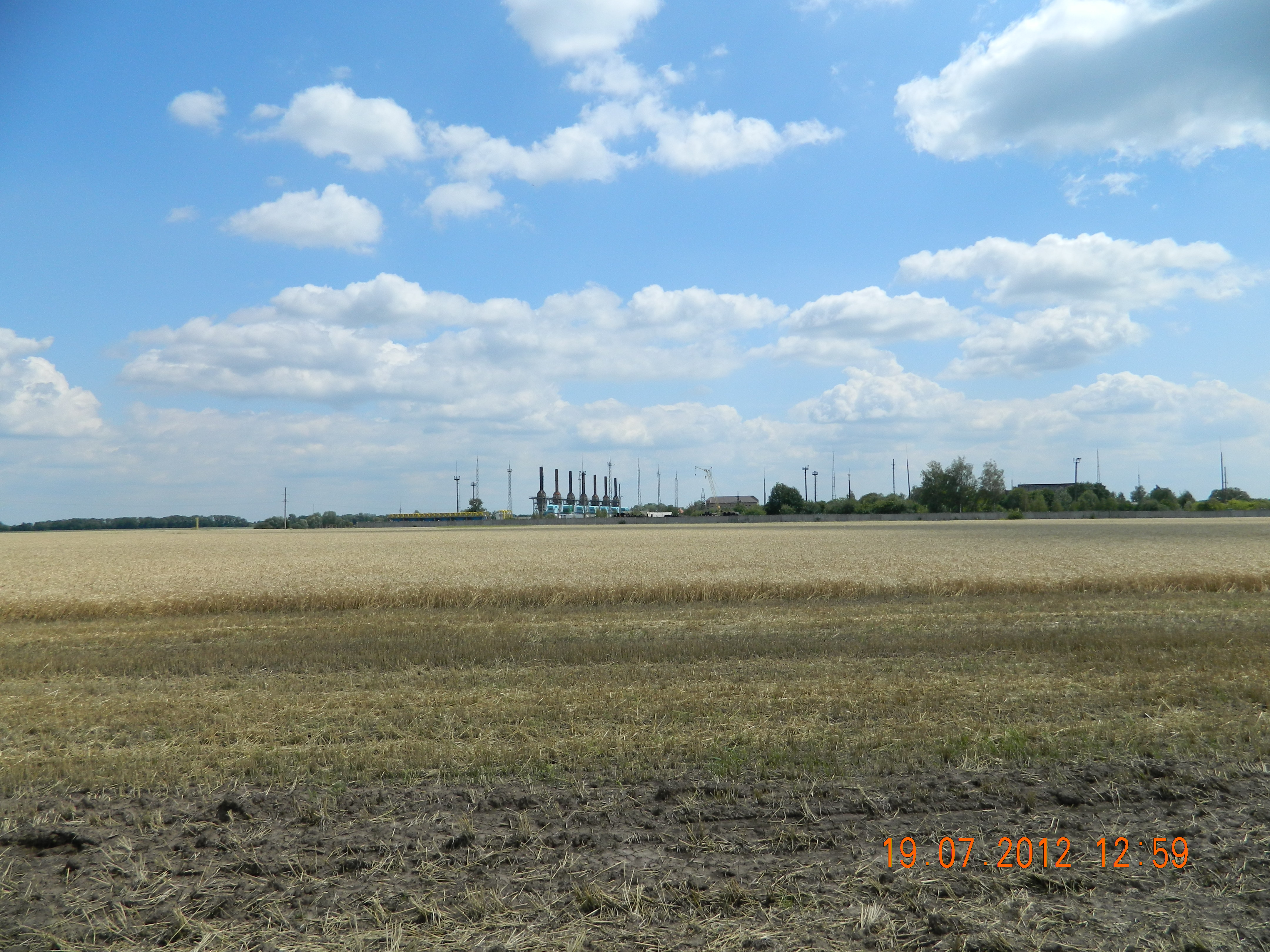 Ukraine. Outskirts Dykan'ky. Manage pipeline compressor station